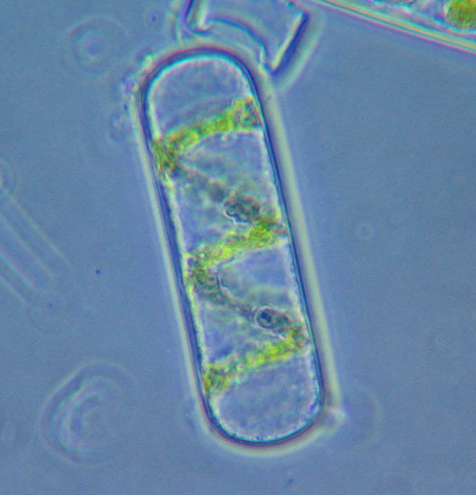 Spyrogira cell (detached from algal filament) under phase contrast, 40x objective through 10x ocular. Taken with Canon Powershot A75 with an in-scope flash by me, Jasper Nance.